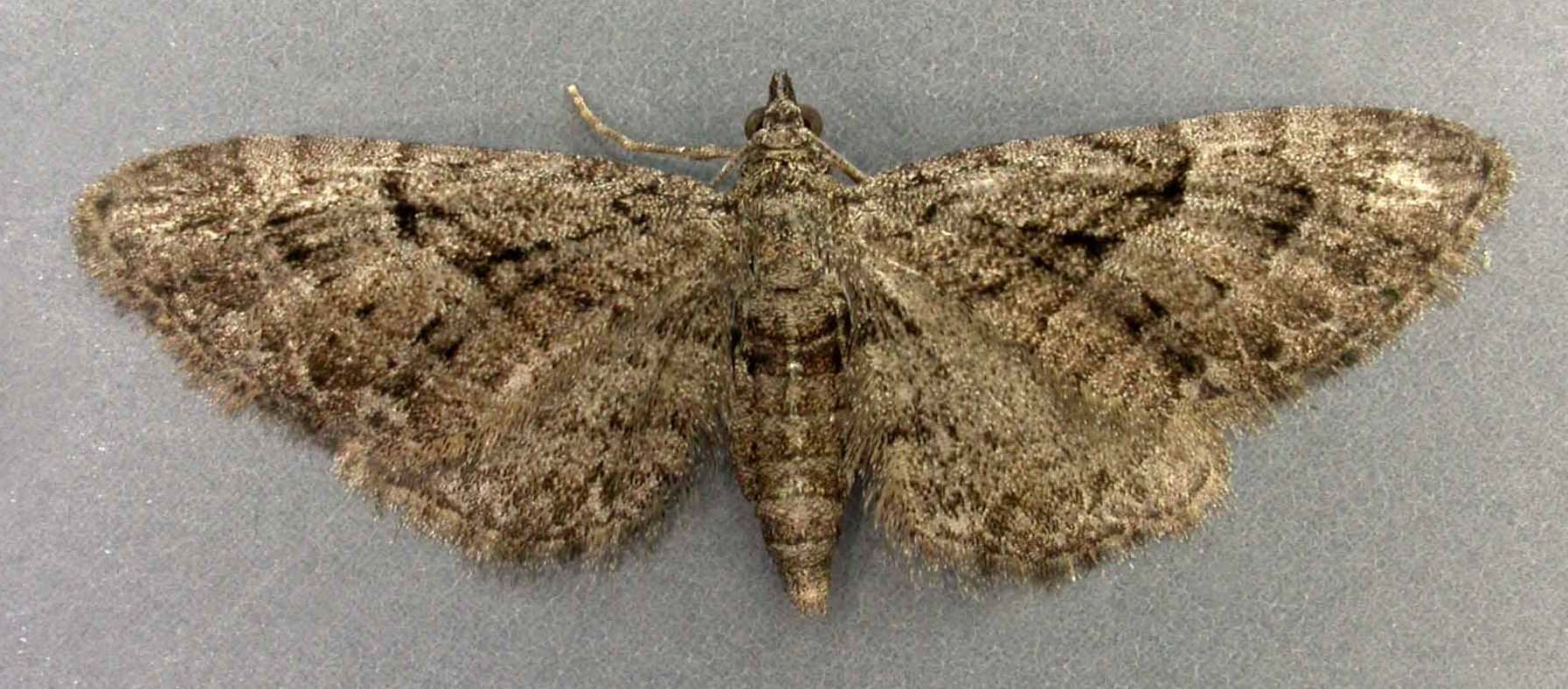 Eupithecia pusillata, Juniper Pug, Llanfyllin, North Wales, July 2009